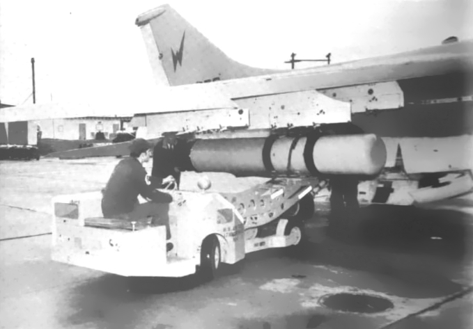 CAPTOR mine being loaded under wing pylon of A-7 aircraft for airdrop test mission